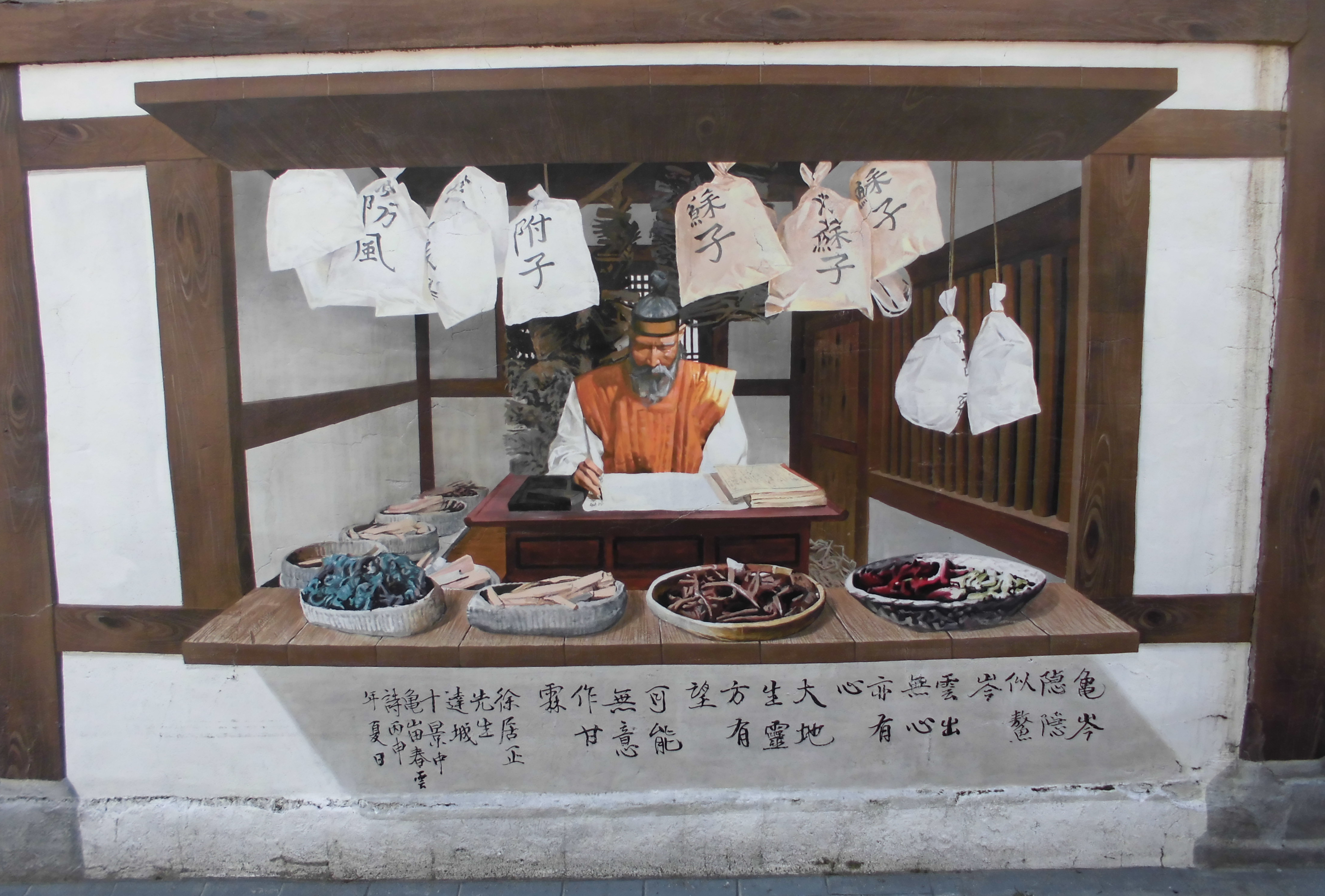 Modern wallpainting of a traditional Korean drugstore in the Yangnyeongsi Medicine Market of Daegu (South Korea).